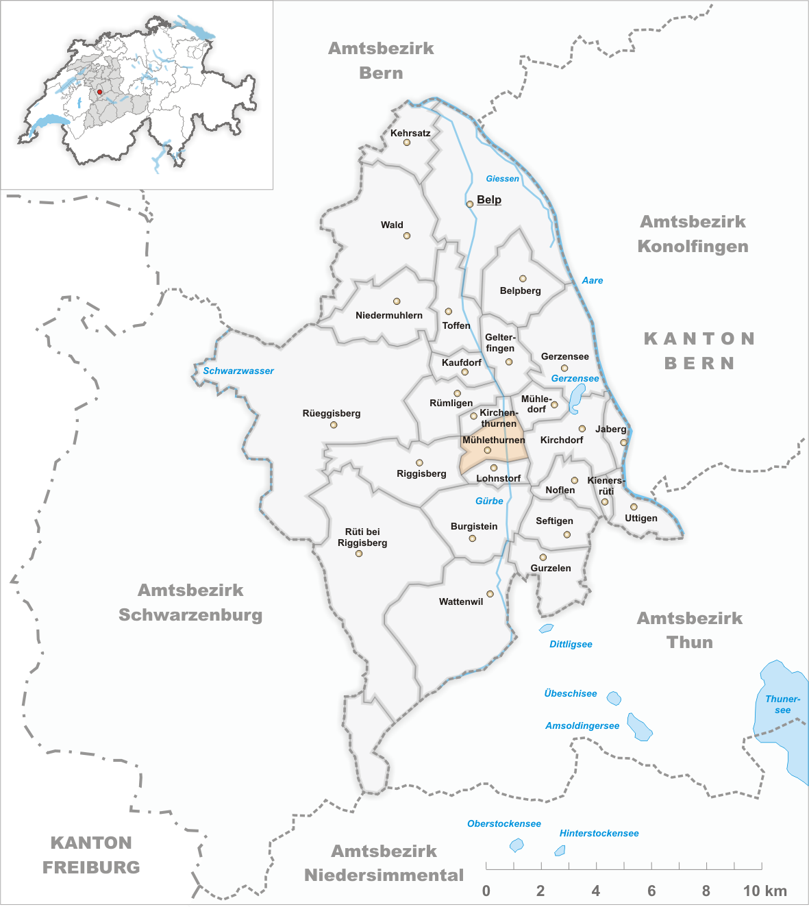 Municipality Mühlethurnen